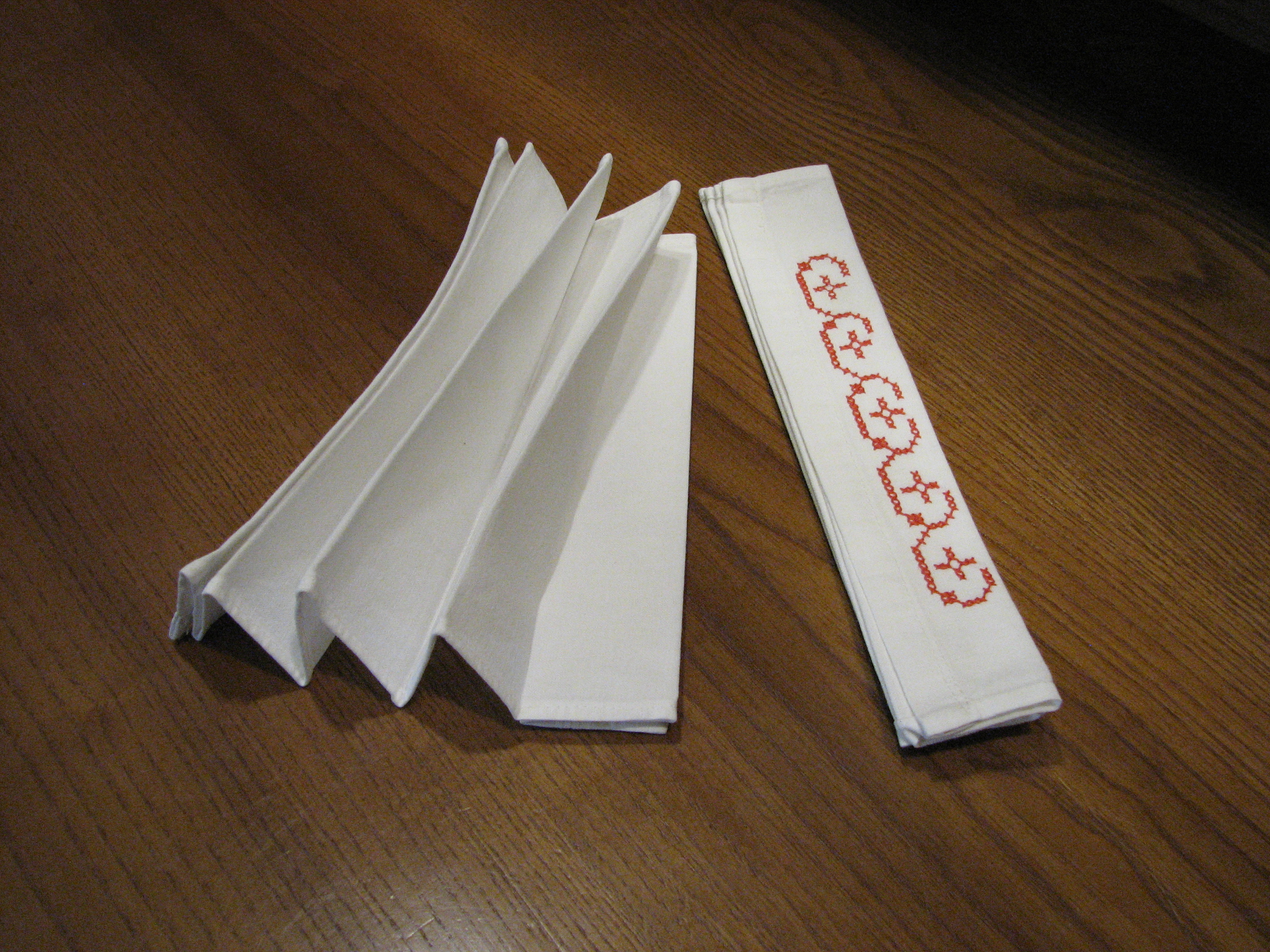 Lavabo towel (Catholic liturgy)